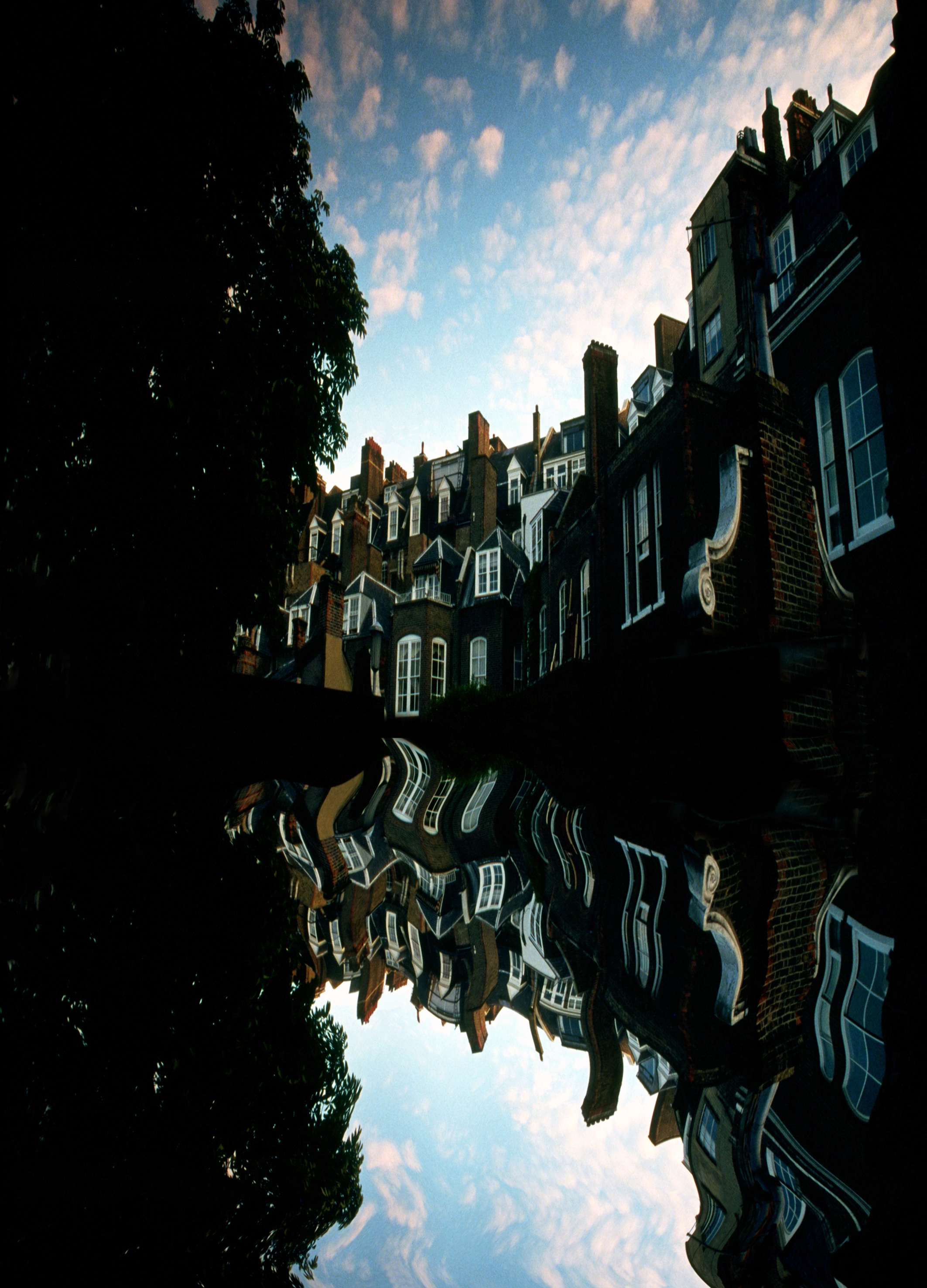 Knightsbridge , Walton Street , London, Floods Abstract... Analog image in 1976, mirror effect 1995